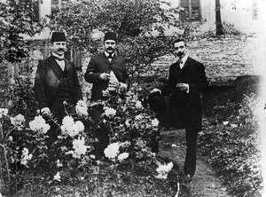 Petros_Sindikas_(1)_Markos_Theodoridis_(3)